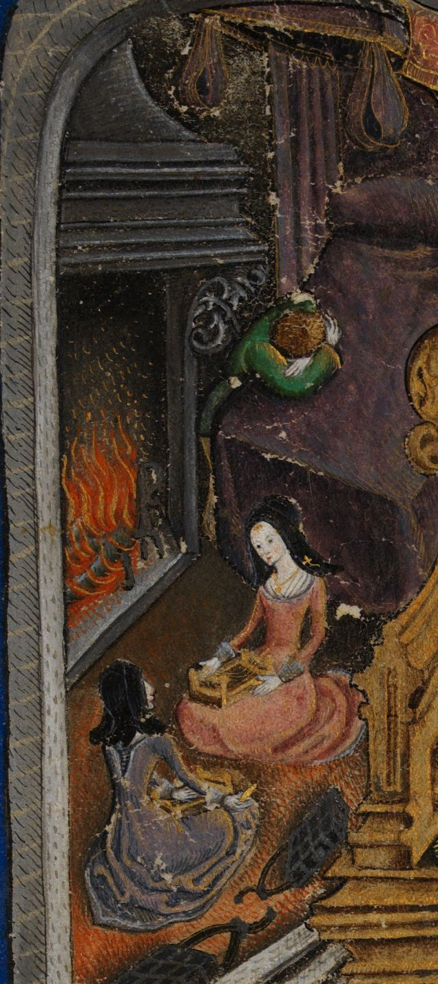 Henry VIII as a child weeping over the death of his mother. His sisters, Mary and Margaret sit in the foreground